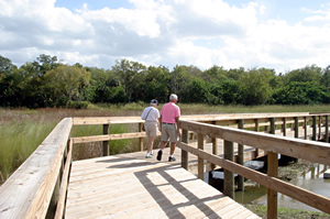 Chain of Lakes, Brevard County Park in Titusville, FL